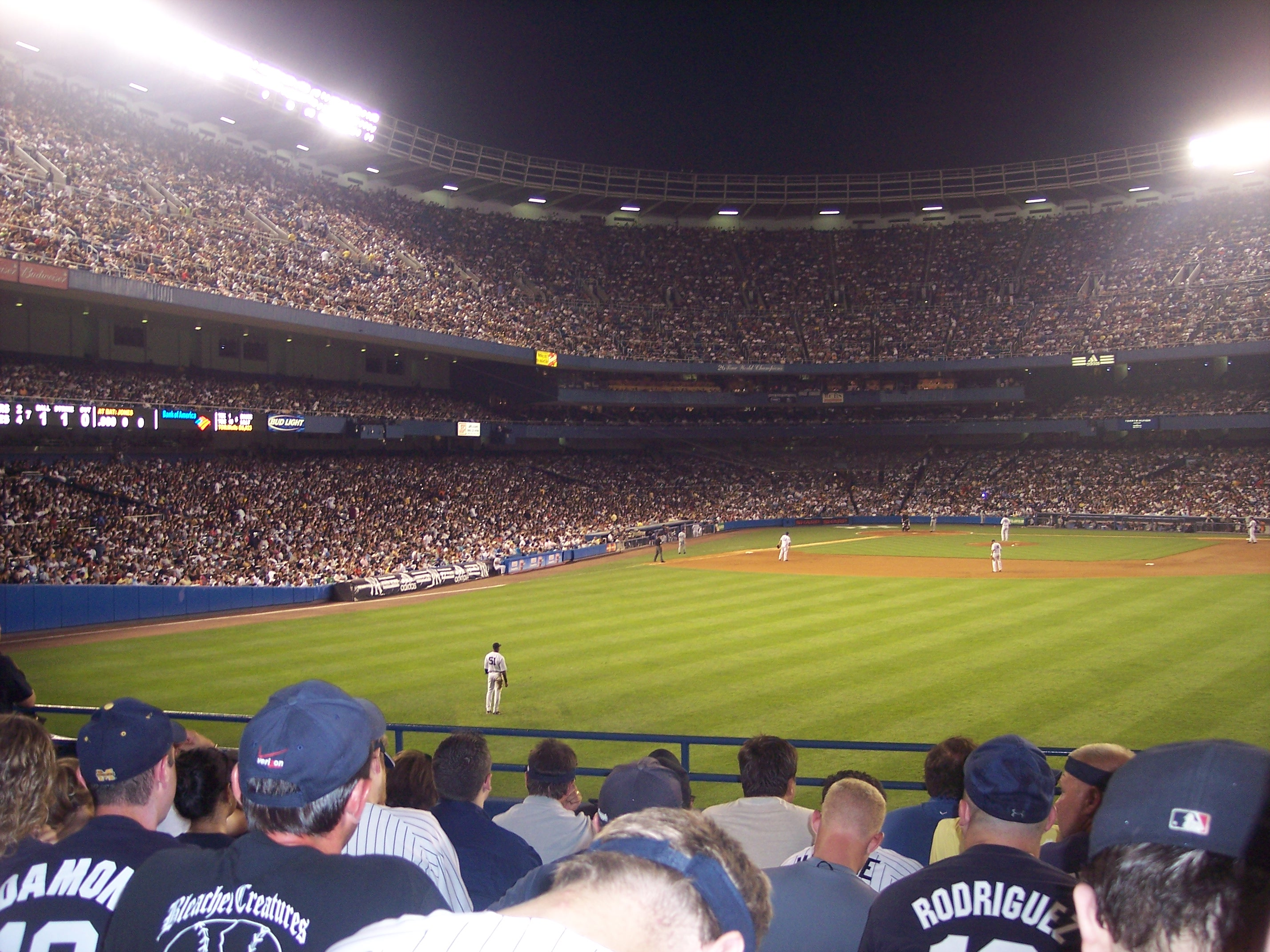 Source: I, the Silent Wind of Doom took the picture at Yankee Stadium04:14, 14 November 2006 . . Silent Wind of Doom . . 2856×2142 (1,497,578 bytes)